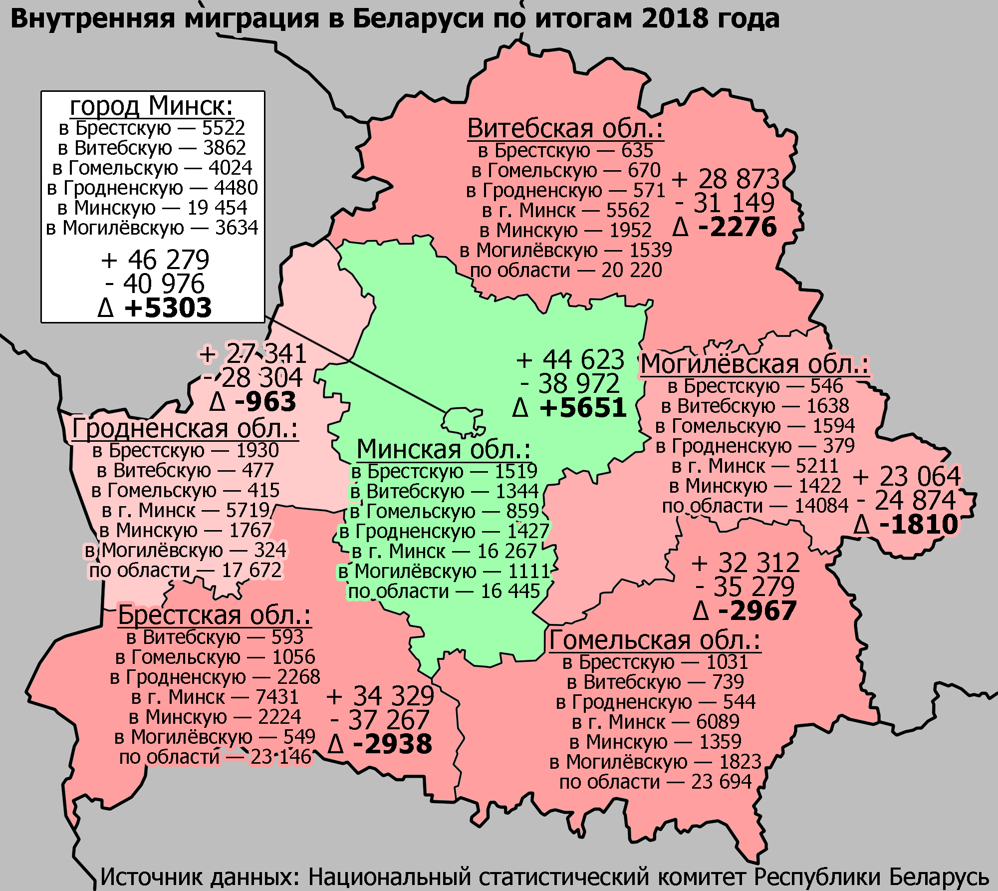 Internal migration in Belarus (2018)